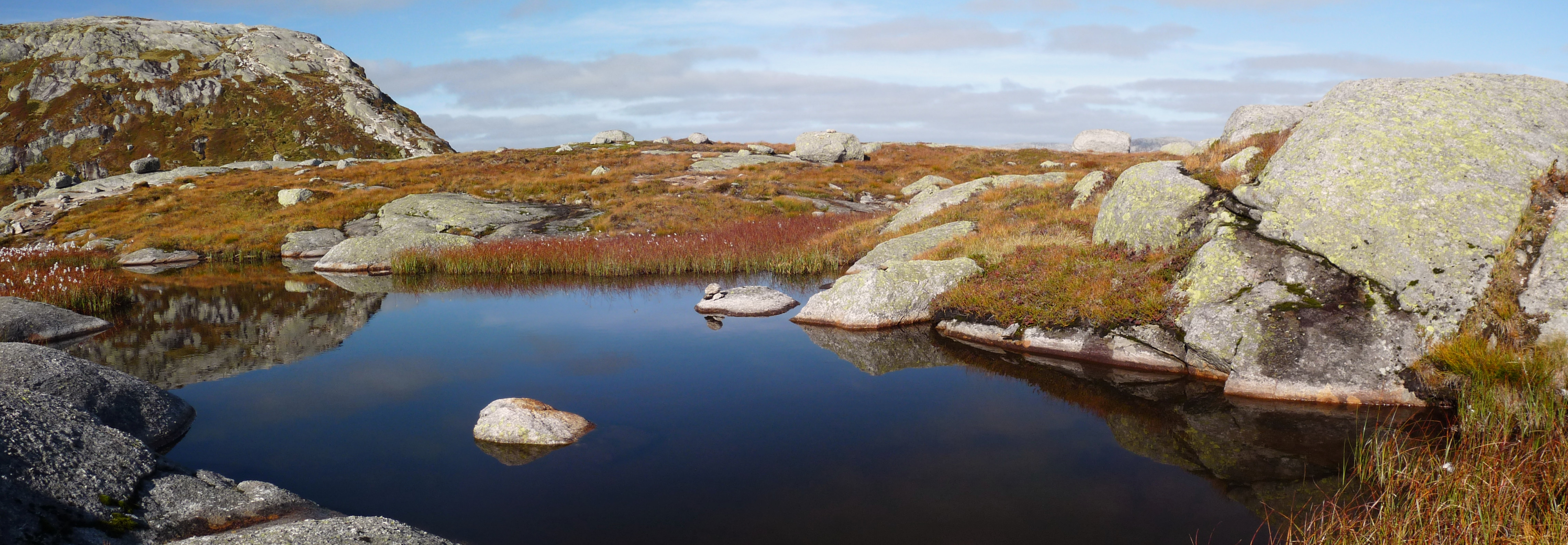 Lake near Lysefjord